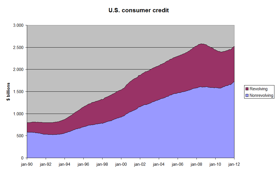 Graph of development of outstanding amount of consumer credit in the Unites States, used on Kredietcrisis. Source: St. Louis Federal Reserve, Economic Research, series ID NONREVSL and REVOLSL.